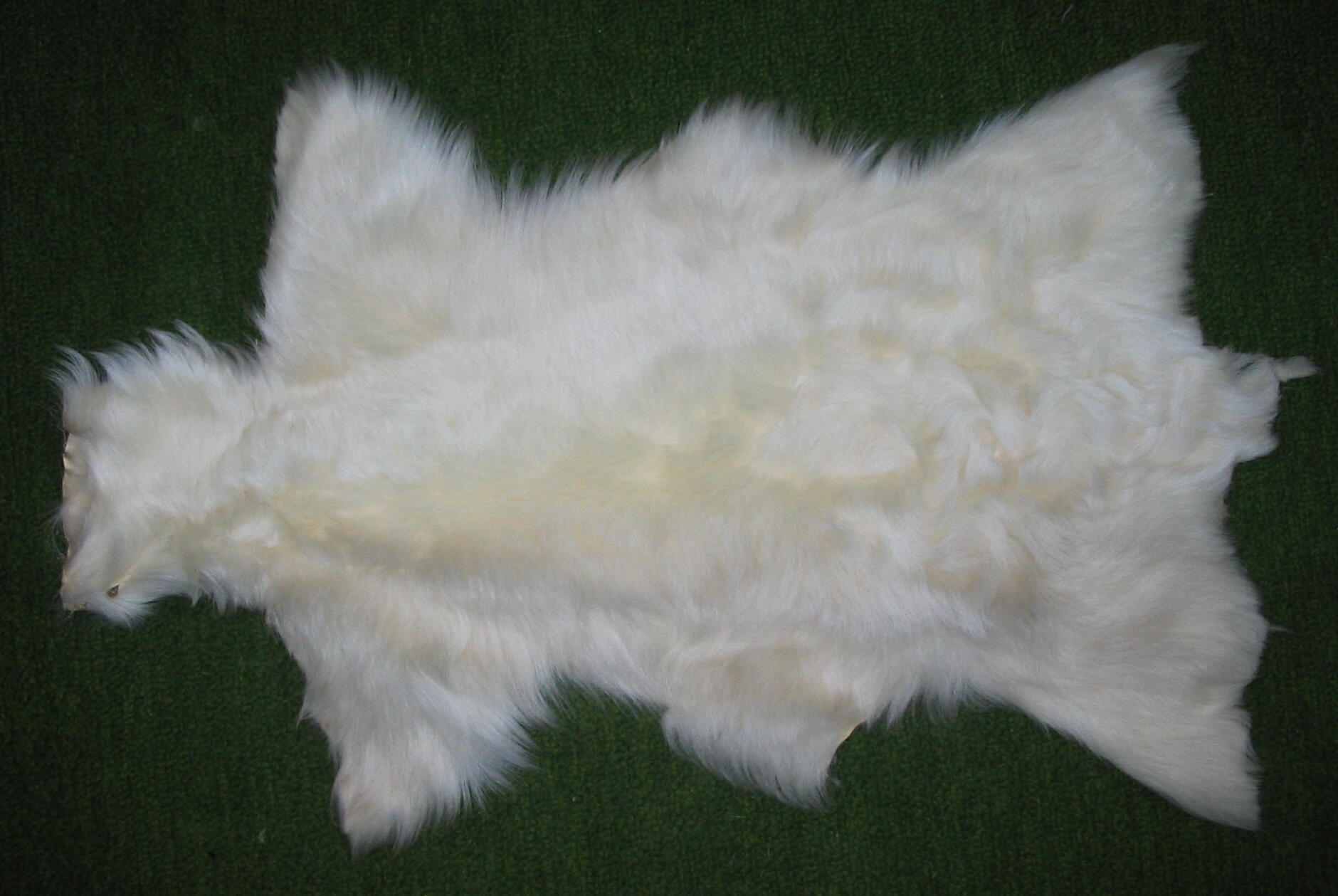 Chekiang lamb fur skins